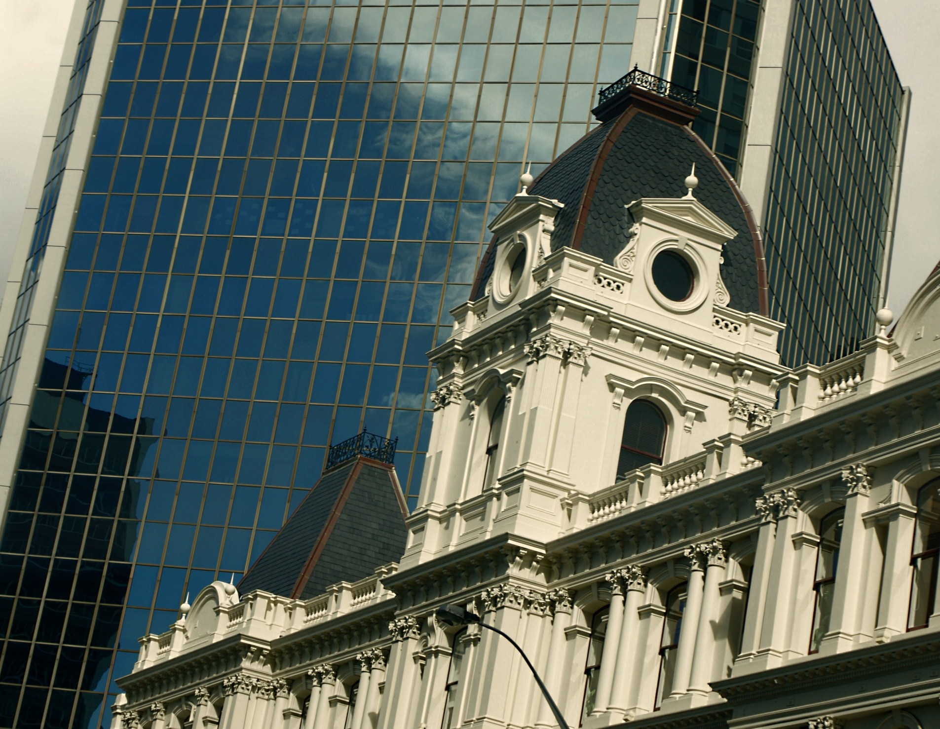 The Price Waterhouse Coopers tower is reflected in the Tower Insurance glass while the Old Customhouse looks on... One of Auckland's finest remaining late Victorian buildings, it is registered by the NZ Historic Places Trust as Category One.